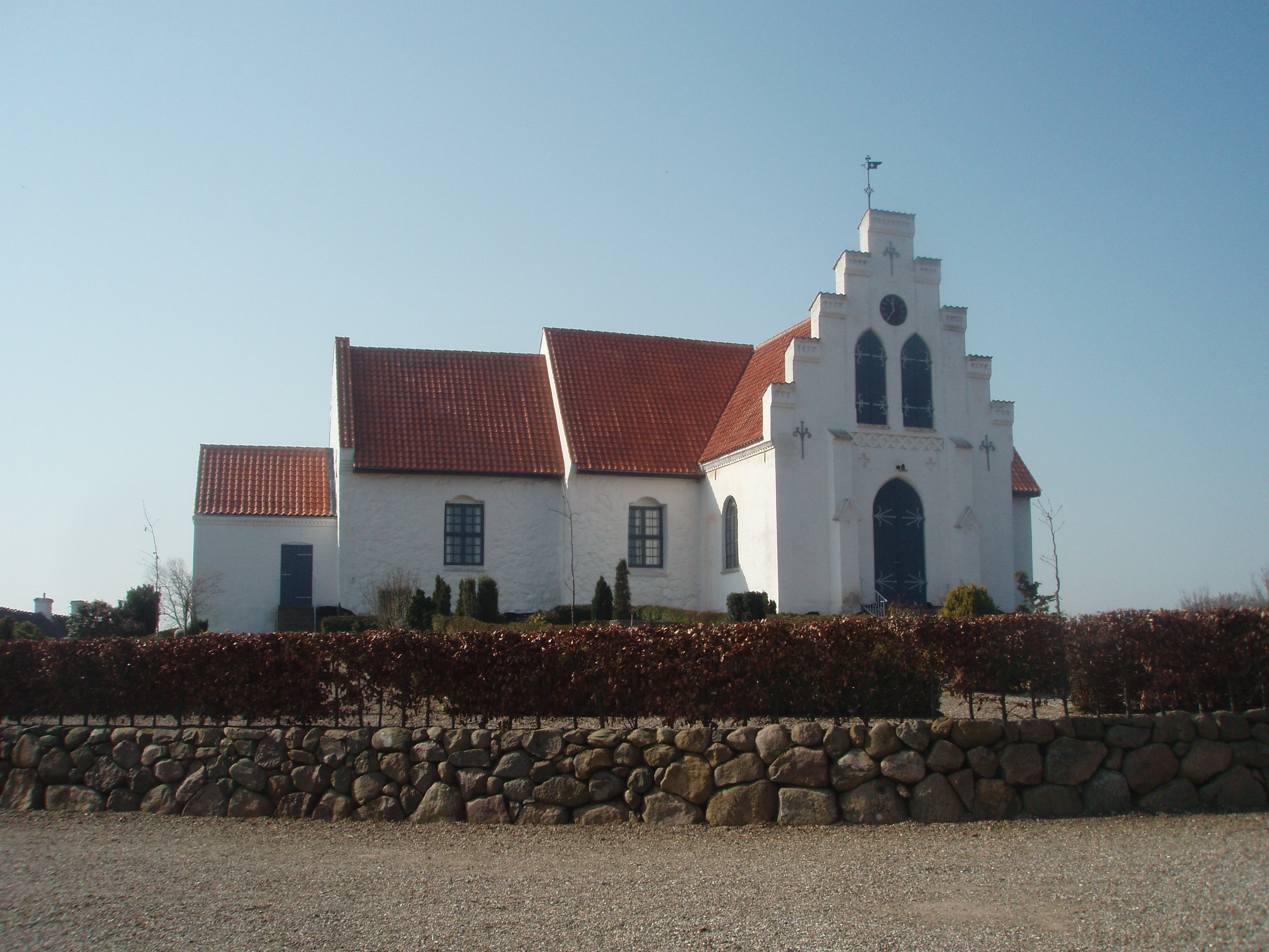 The church in Asserballe, Denmark. Aoril 2009